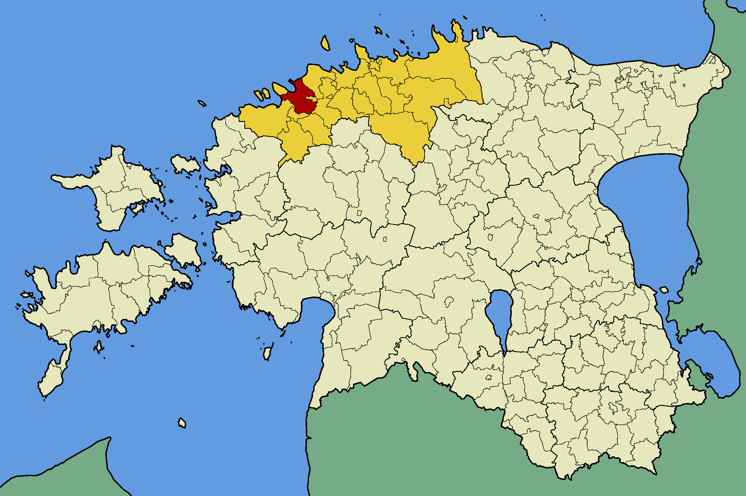 Map of Estonia with borders of municipalities (parishes). Harju county and Keila municipality (parish) emphasized.